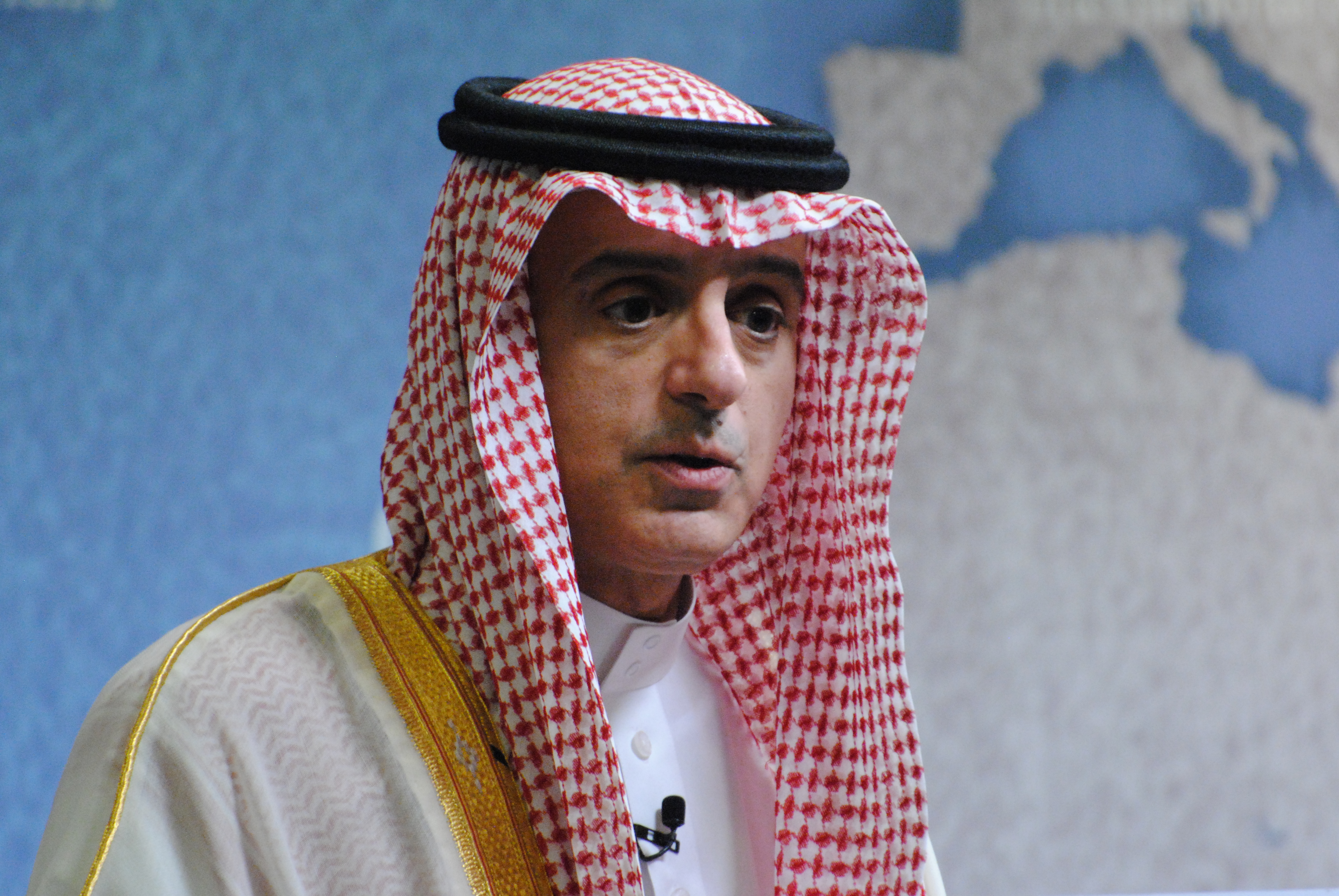 Saudi Arabia’s Regional Foreign Policy Priorities, 7 September 2016, cht.hm/2cpZLwn